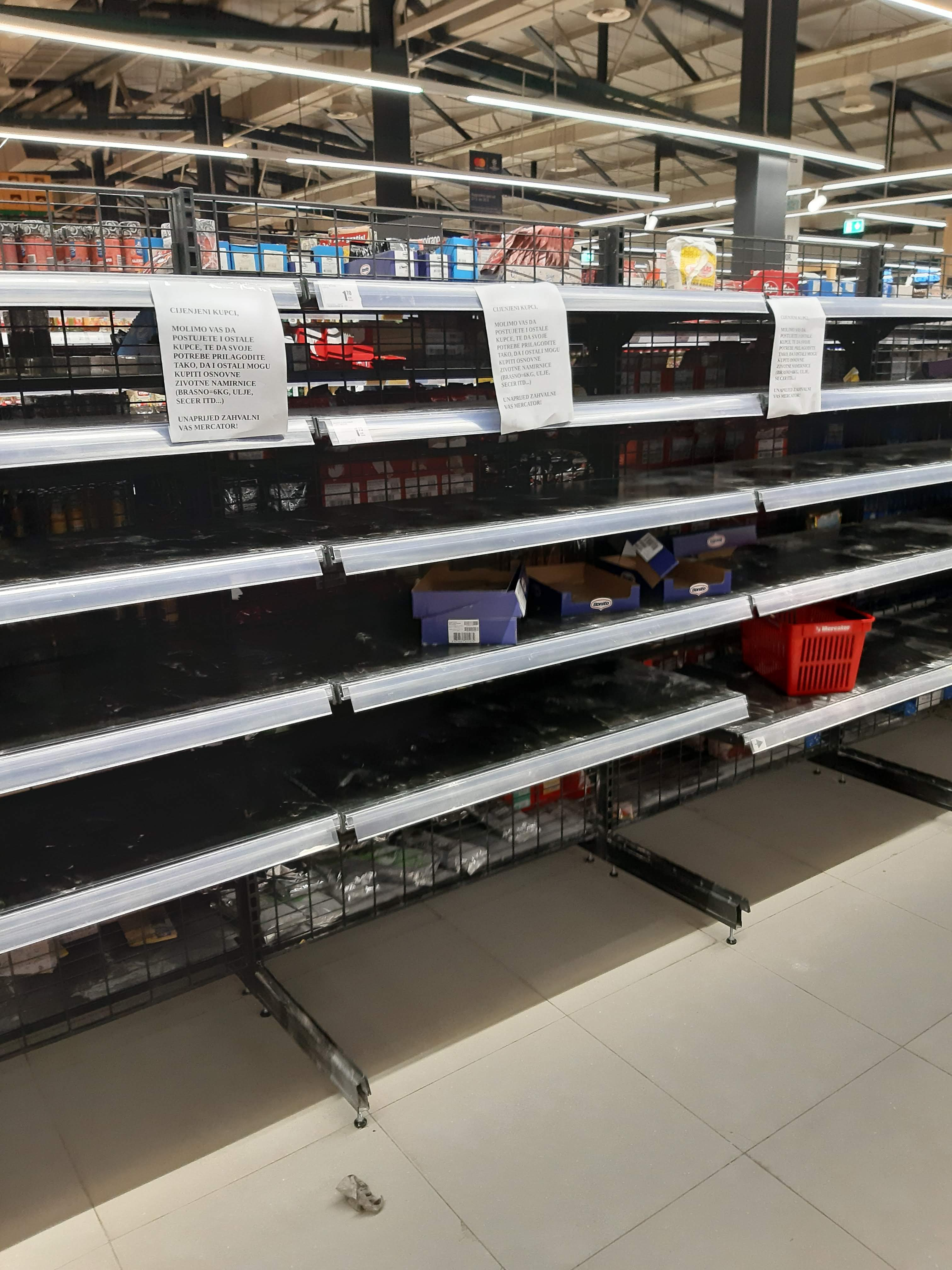 Empty shelves intended for flour in one store in Sarajevo